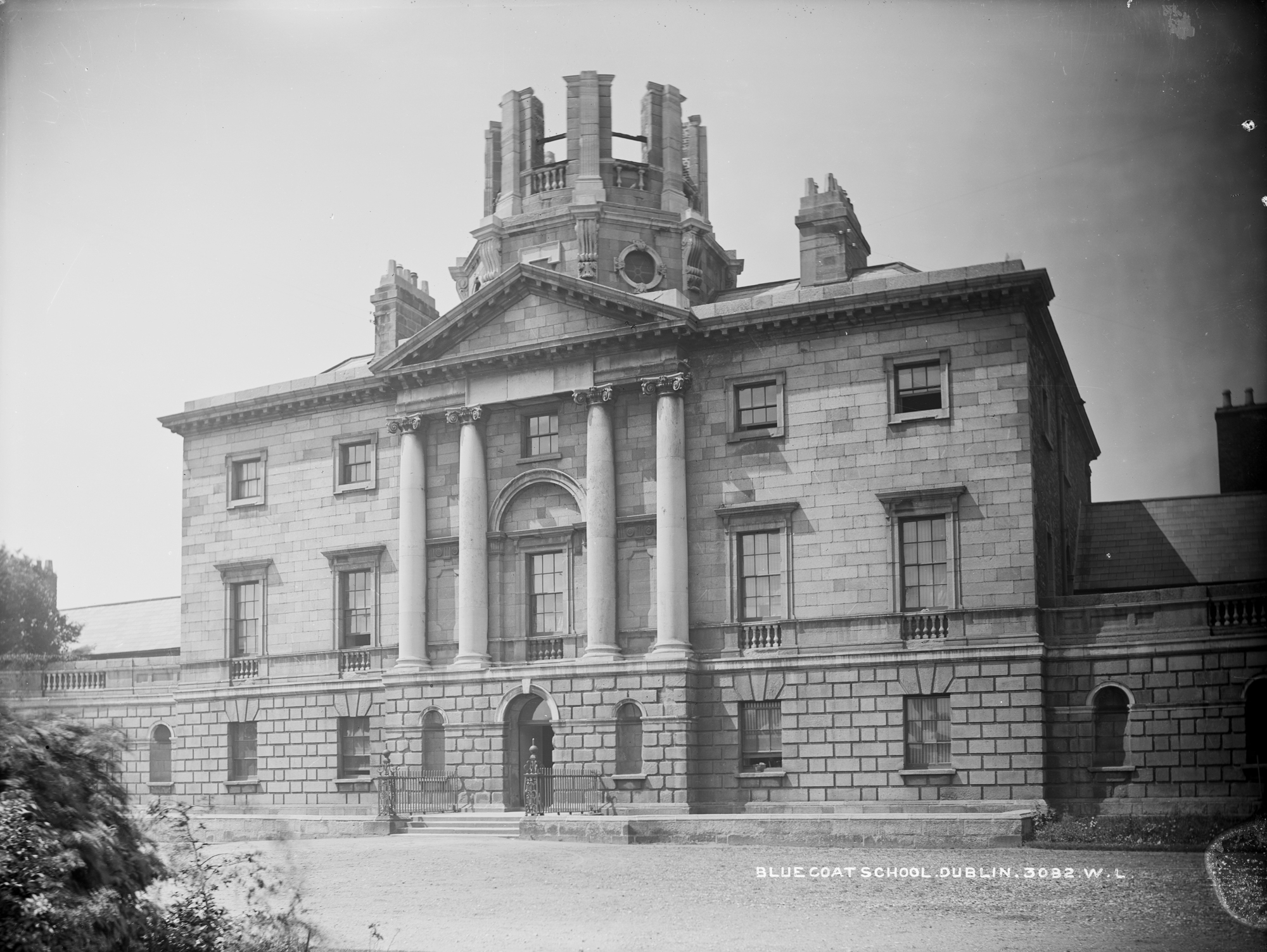 This Blue Coat School building is on Blackhall Place in Dublin, and here it has been captured without its "hat" on. I don't know how long it was in this unadorned state, but hopefully one of you will (or will find out) and that may help us to date this photograph more accurately... Photographer: Almost certainly Robert French of Lawrence Photographic Studios, Dublin Date: Between circa 1888?? and 1894 (when Ivory's tower "stub" was demolished) NLI Ref.: L_ROY_03082